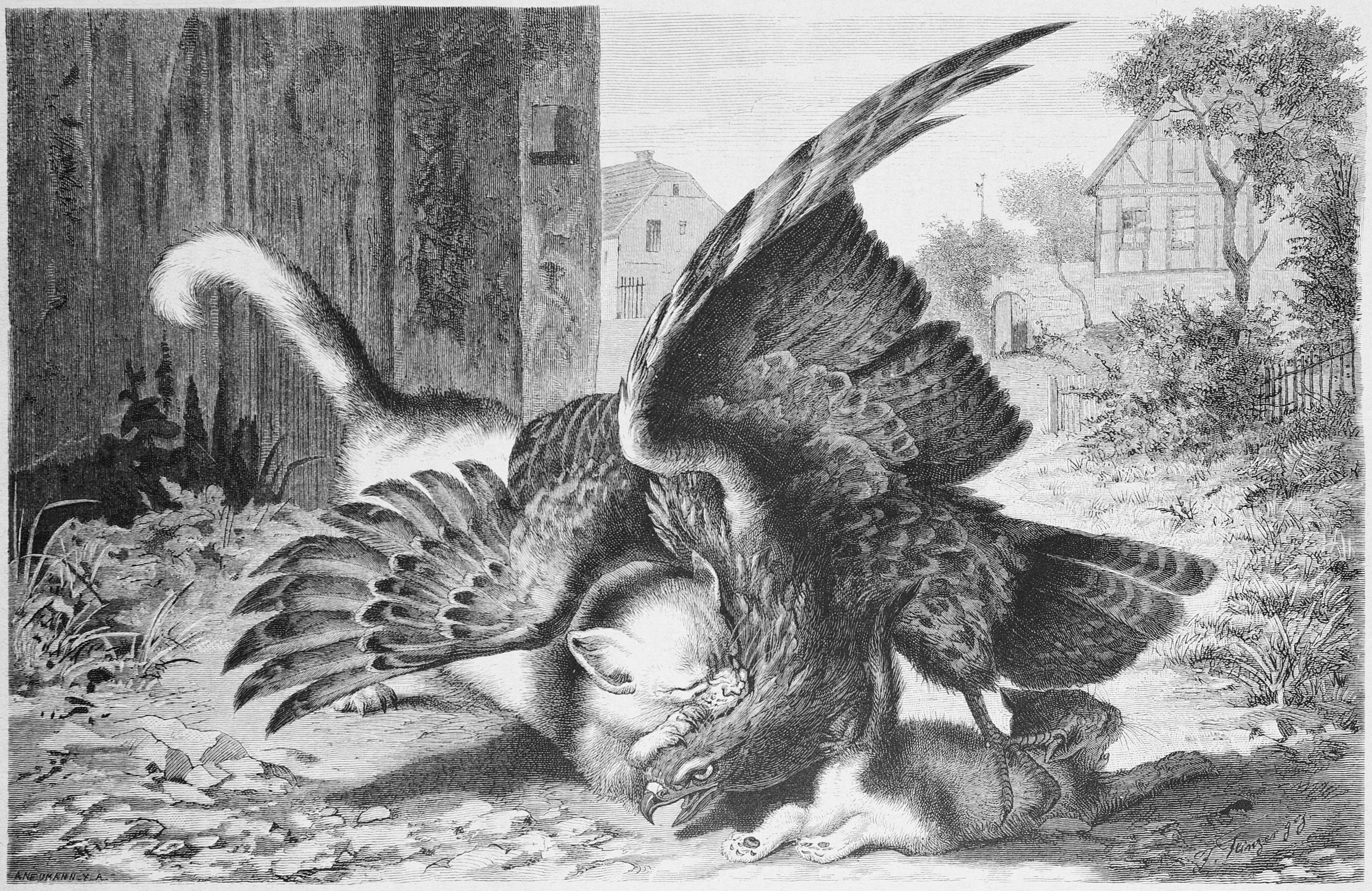 caption: "Der Raubritter in der Klemme. Originalzeichnung von Fedor Flinzer in Leipzig."